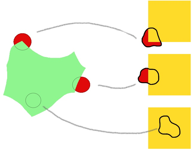 Sketch of localisations of different parts of an analytic polyhedron.